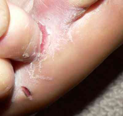 Athlete's foot is a fungal infection of the skin that causes scaling, flaking, and itching of affected areas. It is typically transmitted in moist areas where people walk barefoot, such as showers or bathhouses. The image shows the toes from below plus the front part of the sole.